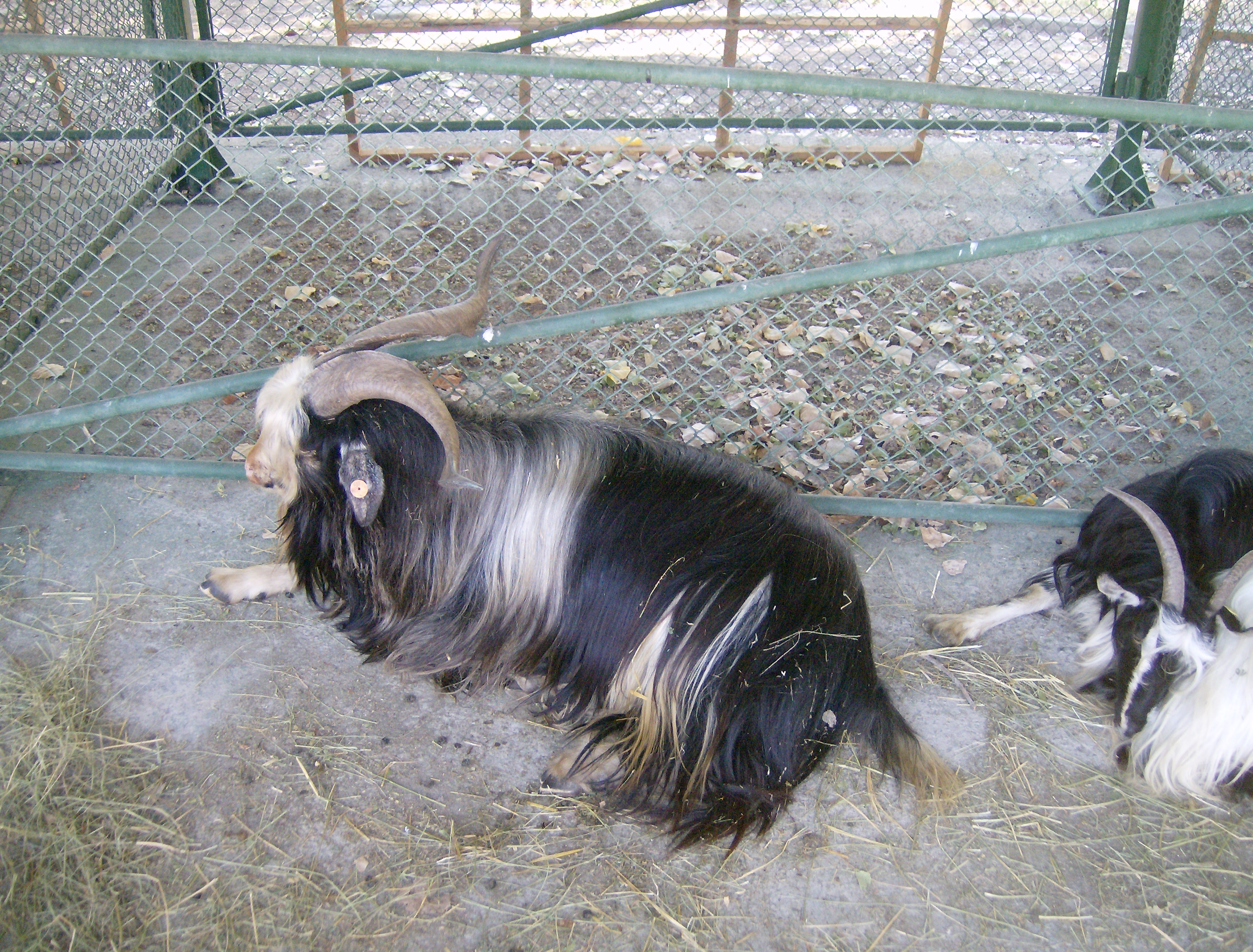 Malashevska goat